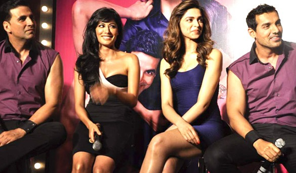 DESI BOYZ cast at audio release